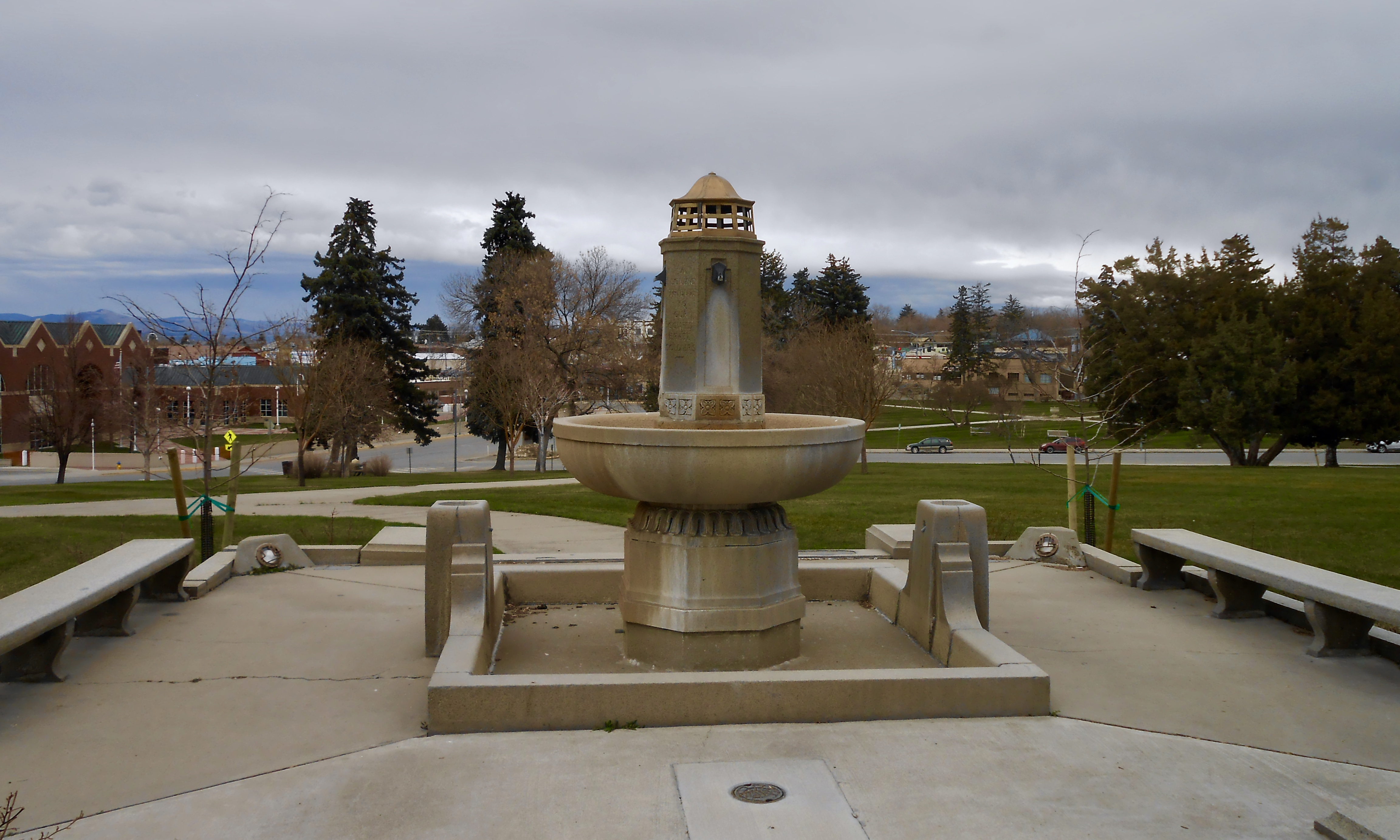 The Confederate Memorial Fountain in Helena, Montana is the only monument to the Confederacy in Northwestern United States and believed to be the northernmost such monument in the USA. It lies within the Helena Historic District and is near the Algeria Shrine Temple and the Helena branch of the Federal Reserve Bank of MInneapolis. Image is looking approximately to the Northeast toward the intersection of Neill and Fuller.